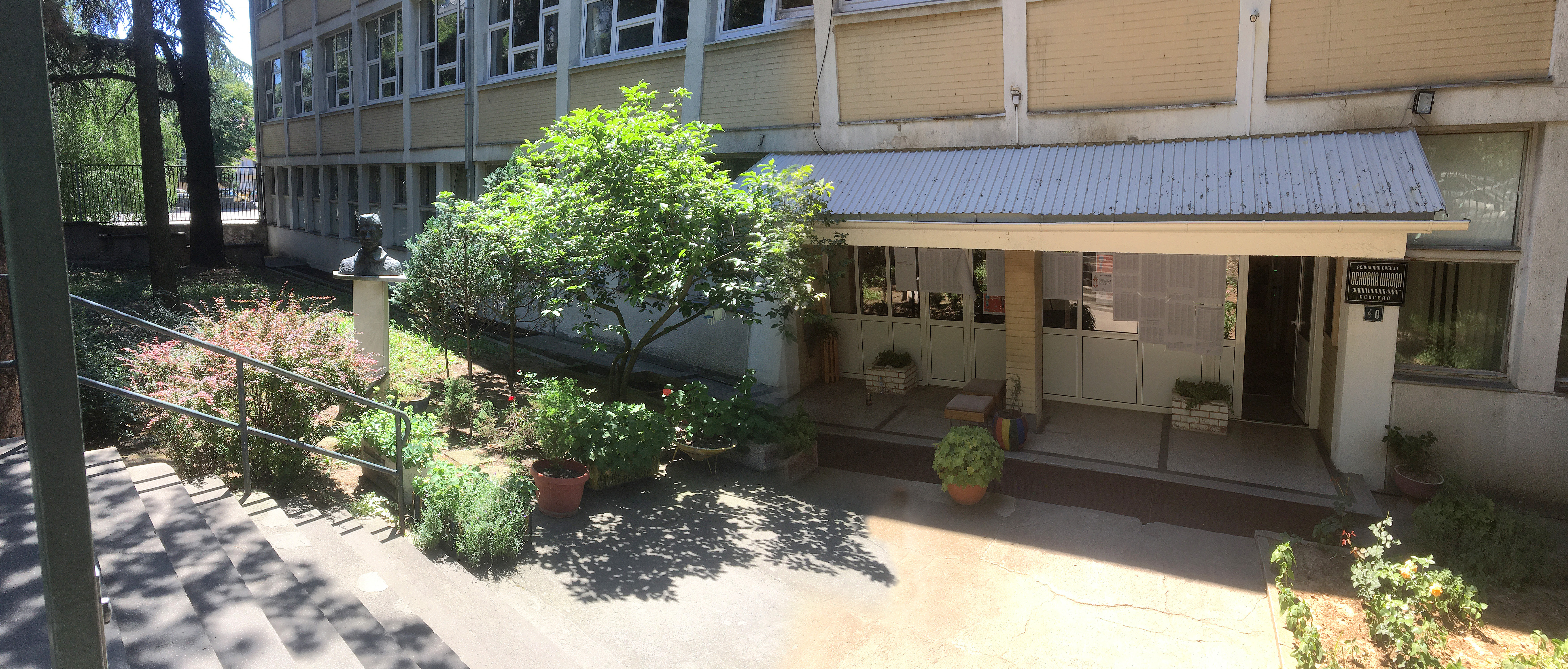 Filip Kljaic primary school, Belgrade entrance